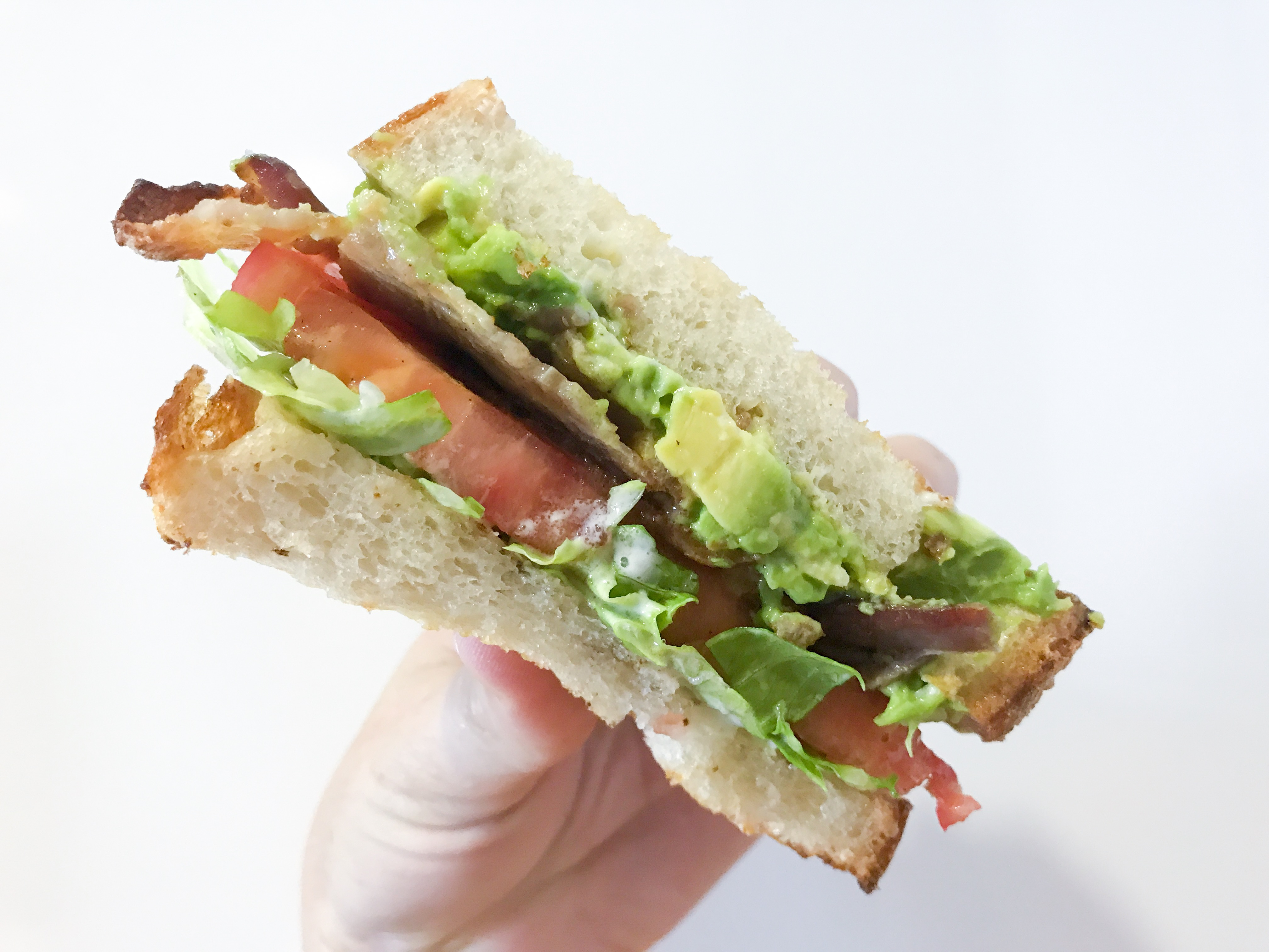 A hand holding a BLT + avocado (BLAT) sandwich.